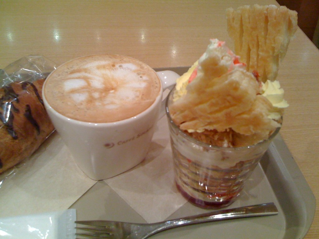 Peach Parfait & Cafe Ole, Caffè Solare at Linux Café